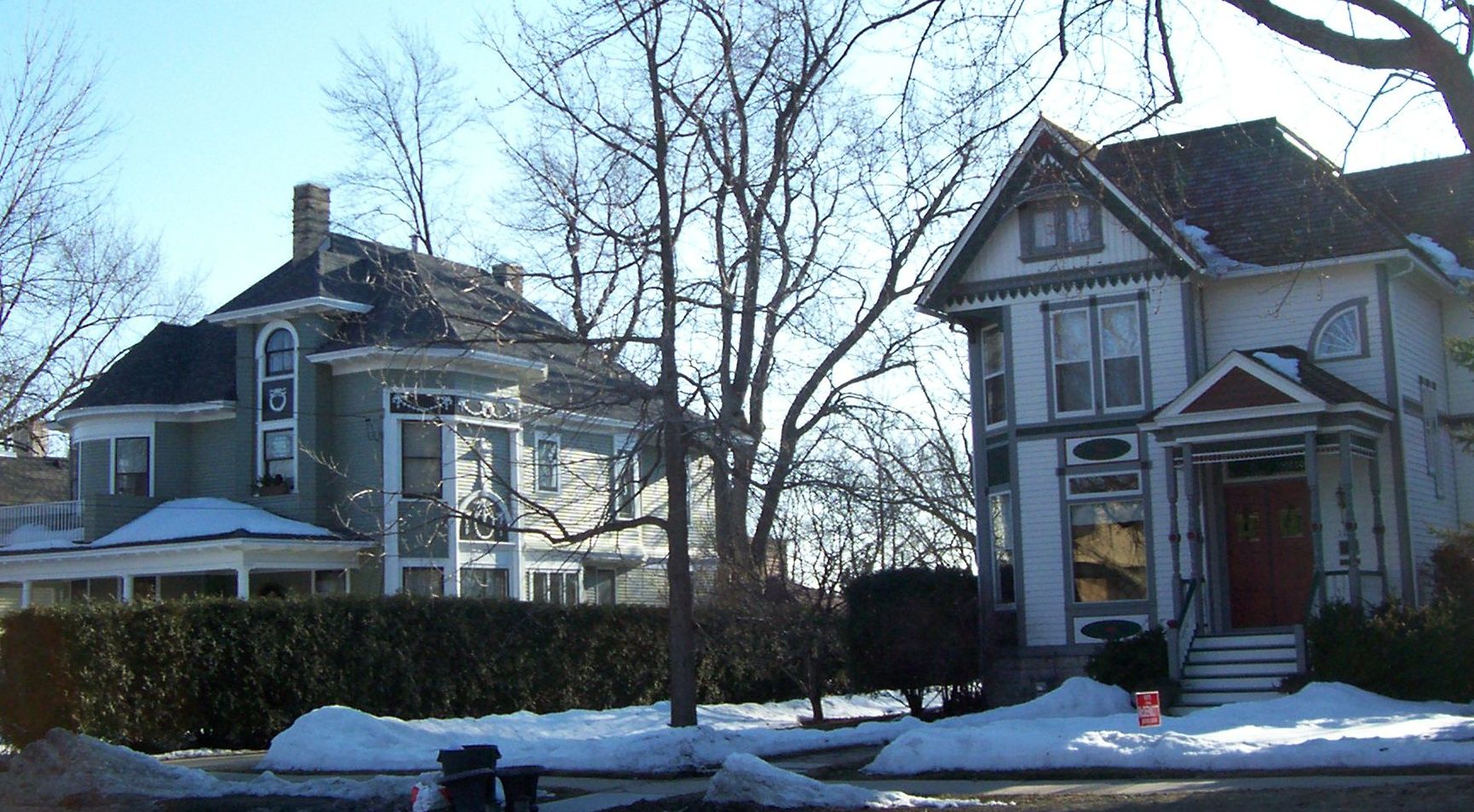 Houses in the Algoma Boulevard Historic District in Oshkosh, Wisconsin, USA.